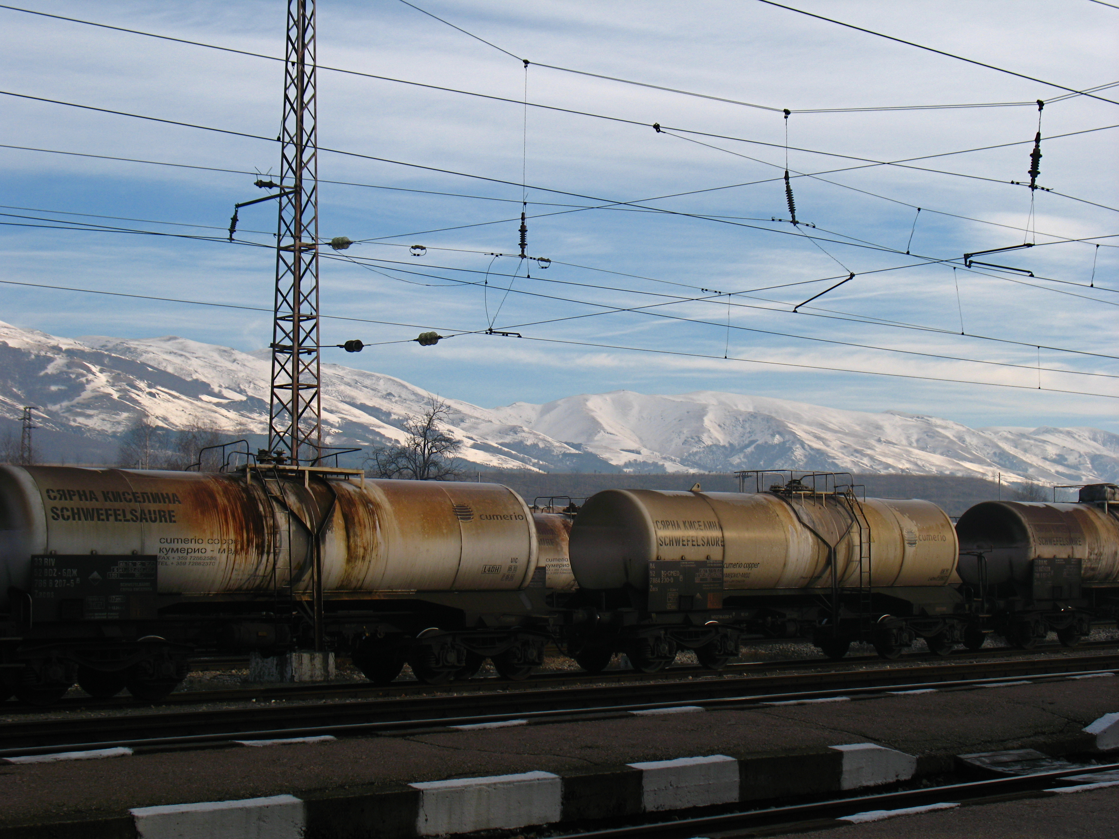 Rolling stock in Pirdop station